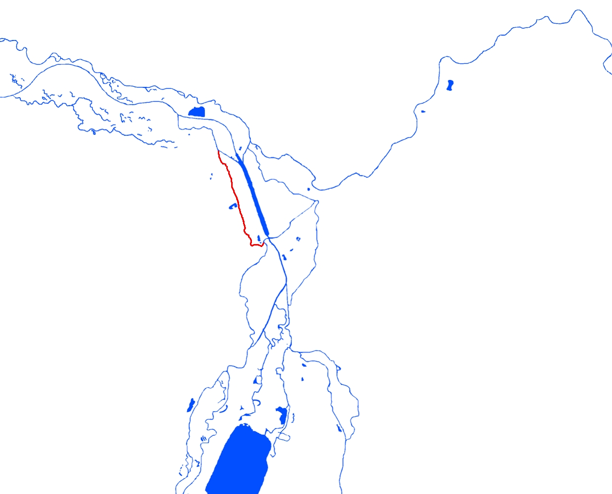 The Waterknot of Leipzig with the Small Luppe (in red)